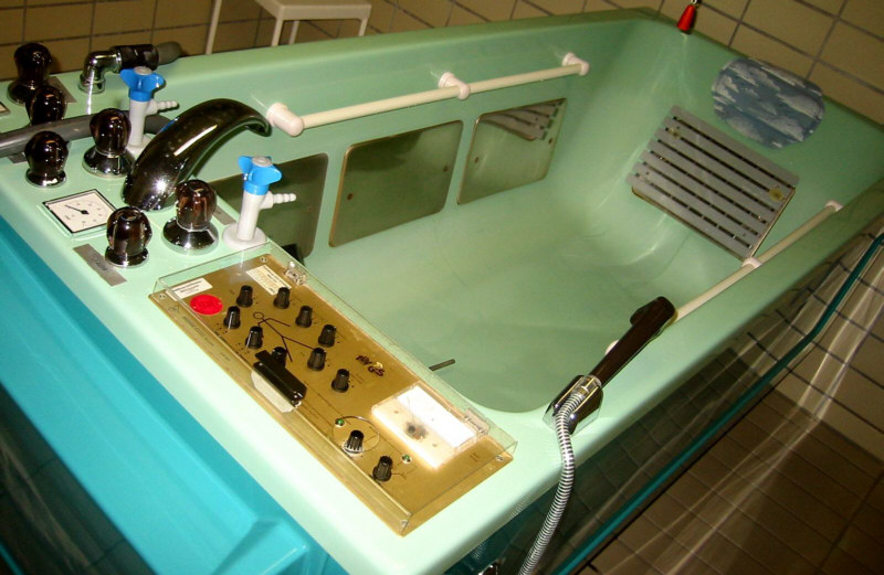 „Stangerbad“ (bath for hydroelectrical therapy) in a German rehab hospital